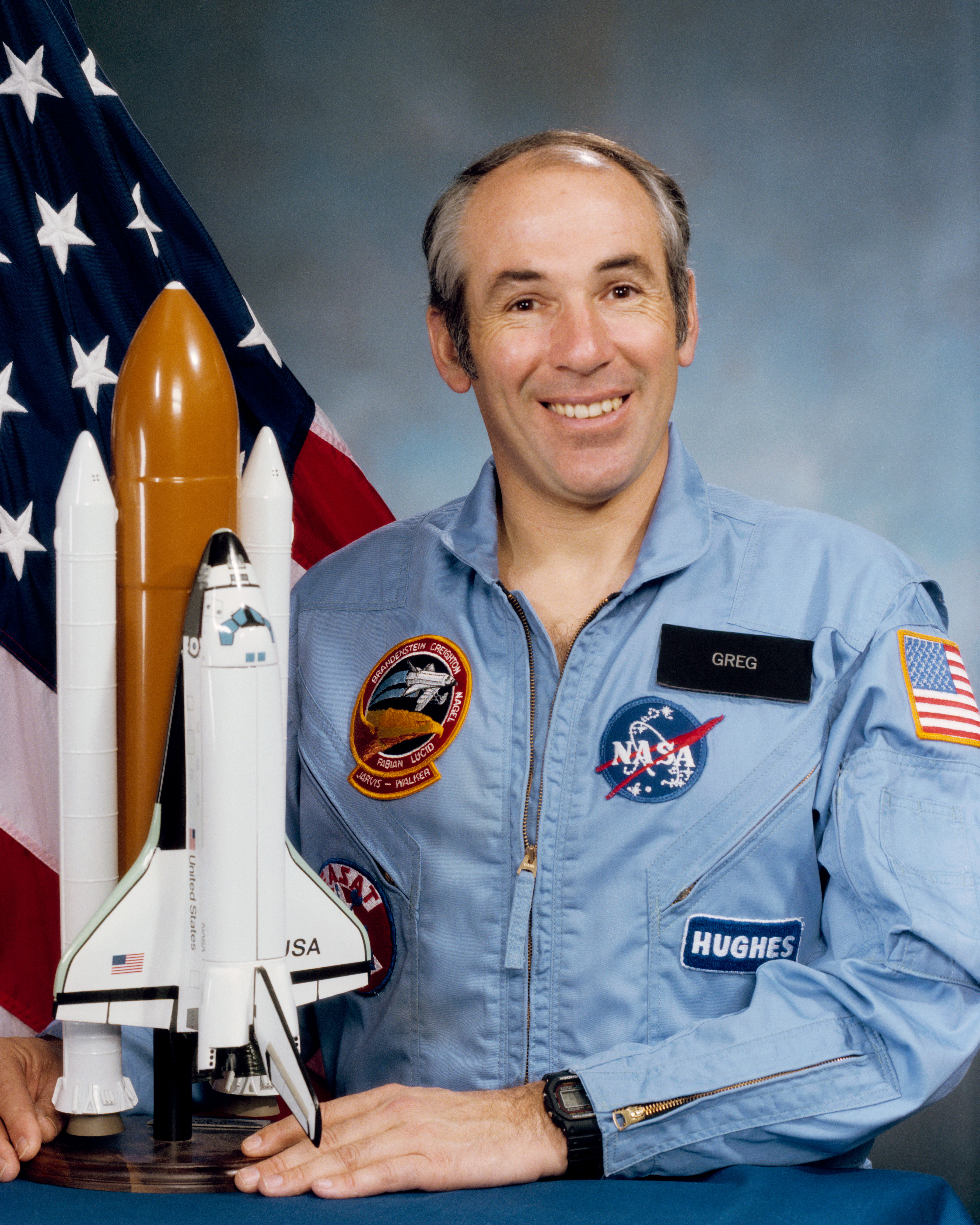 Astronaut Gregory B. Jarvis, payload specialist. (NOTE: Since this portrait was taken, Jarvis died in the STS-51L space shuttle Challenger explosion, on Jan. 28, 1986.)